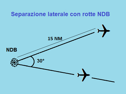 ATC Lateral separation NDB